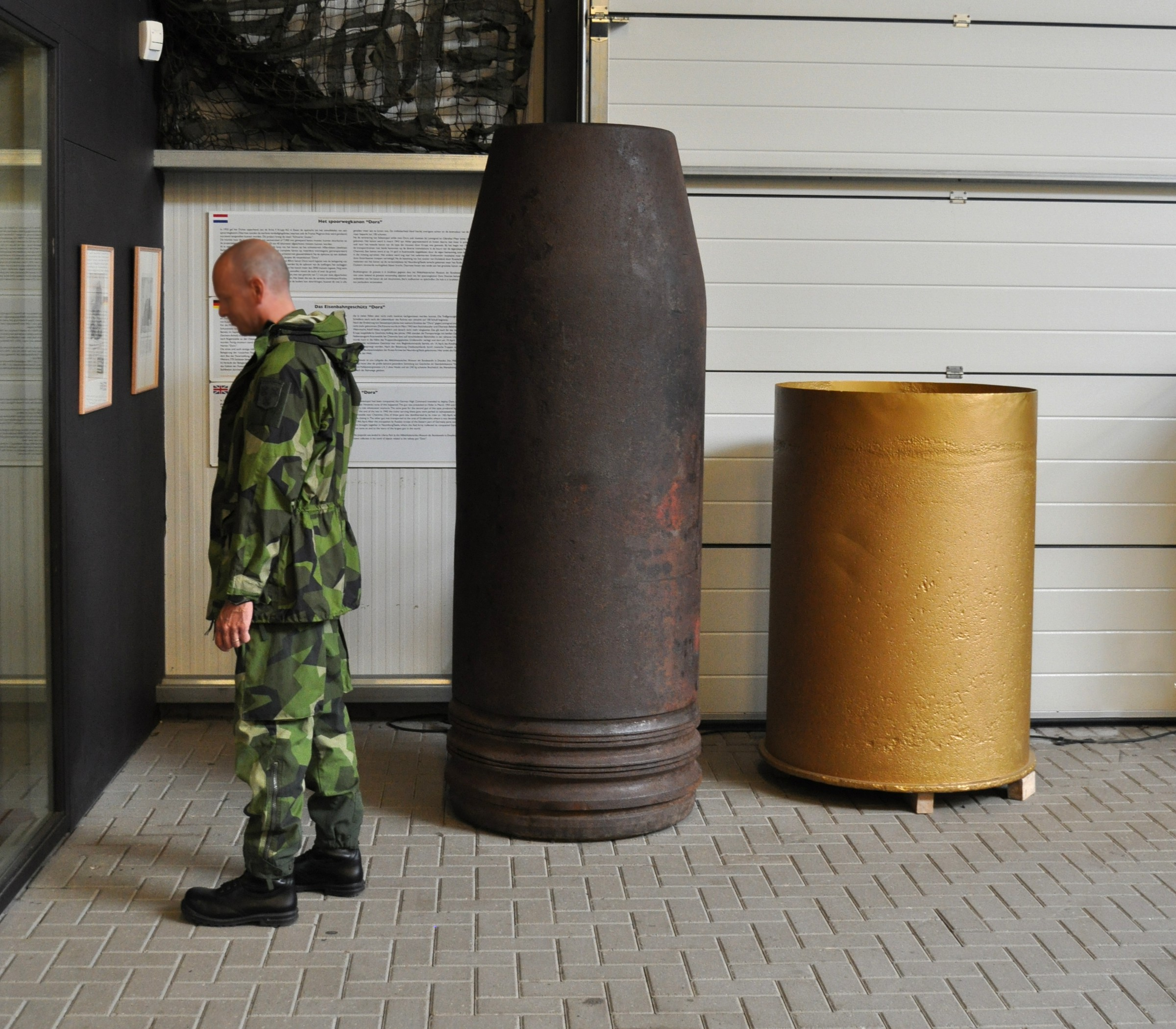 Shell and cartridge to a 80 cm railway gun.